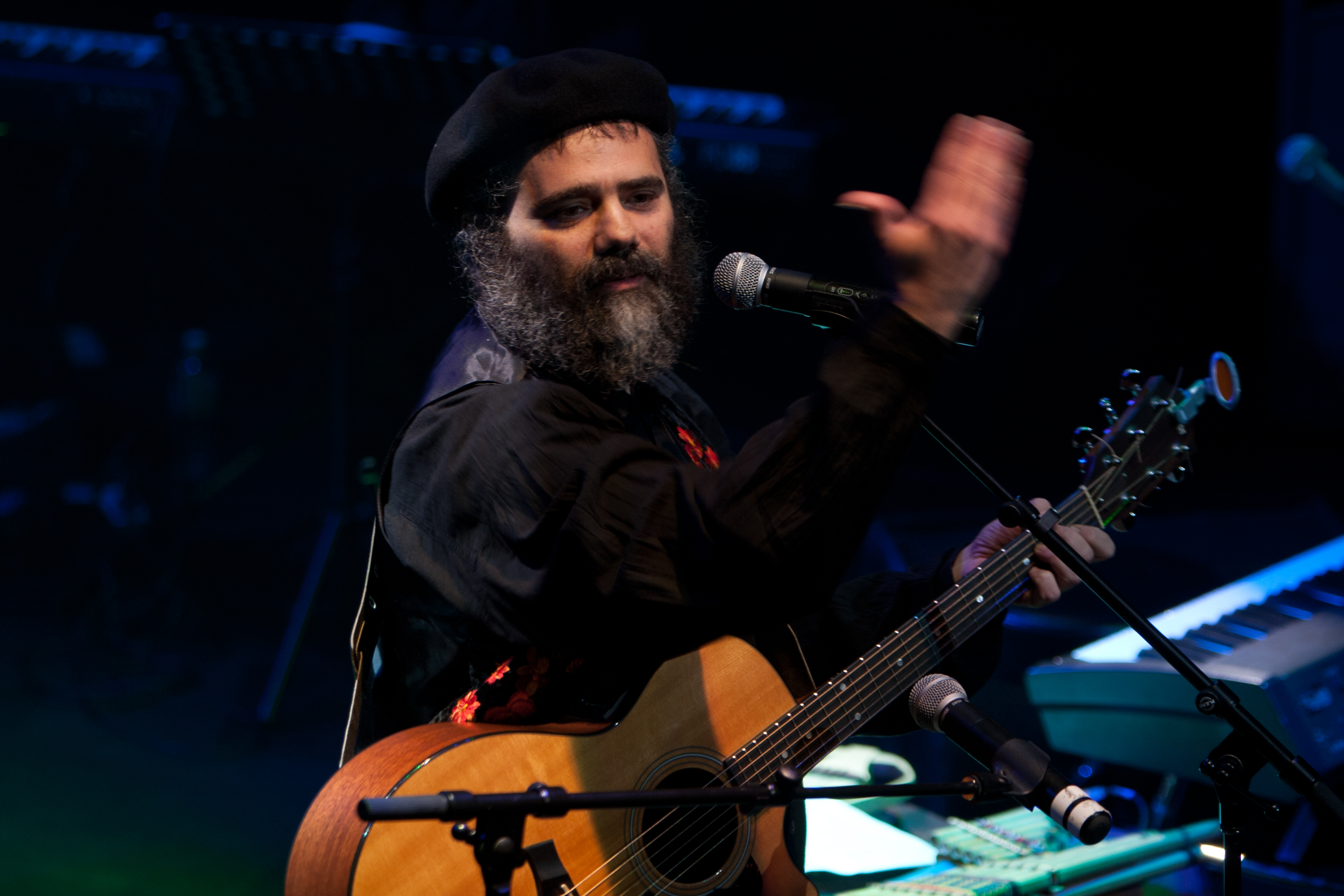 Yehuda Glantz with Guitar